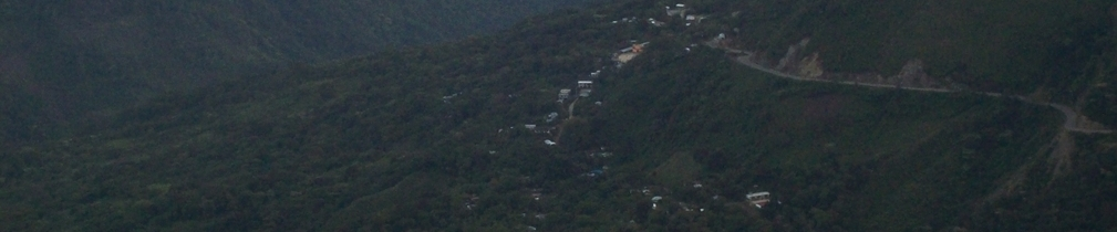 Panoramic vist of San Jose Chinantequilla, Oaxaca in Mexico.